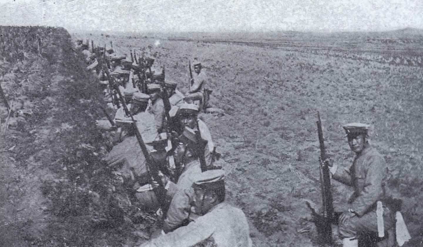 Japanese Infantry Preparing the Attack during the Siege of Port Arther.